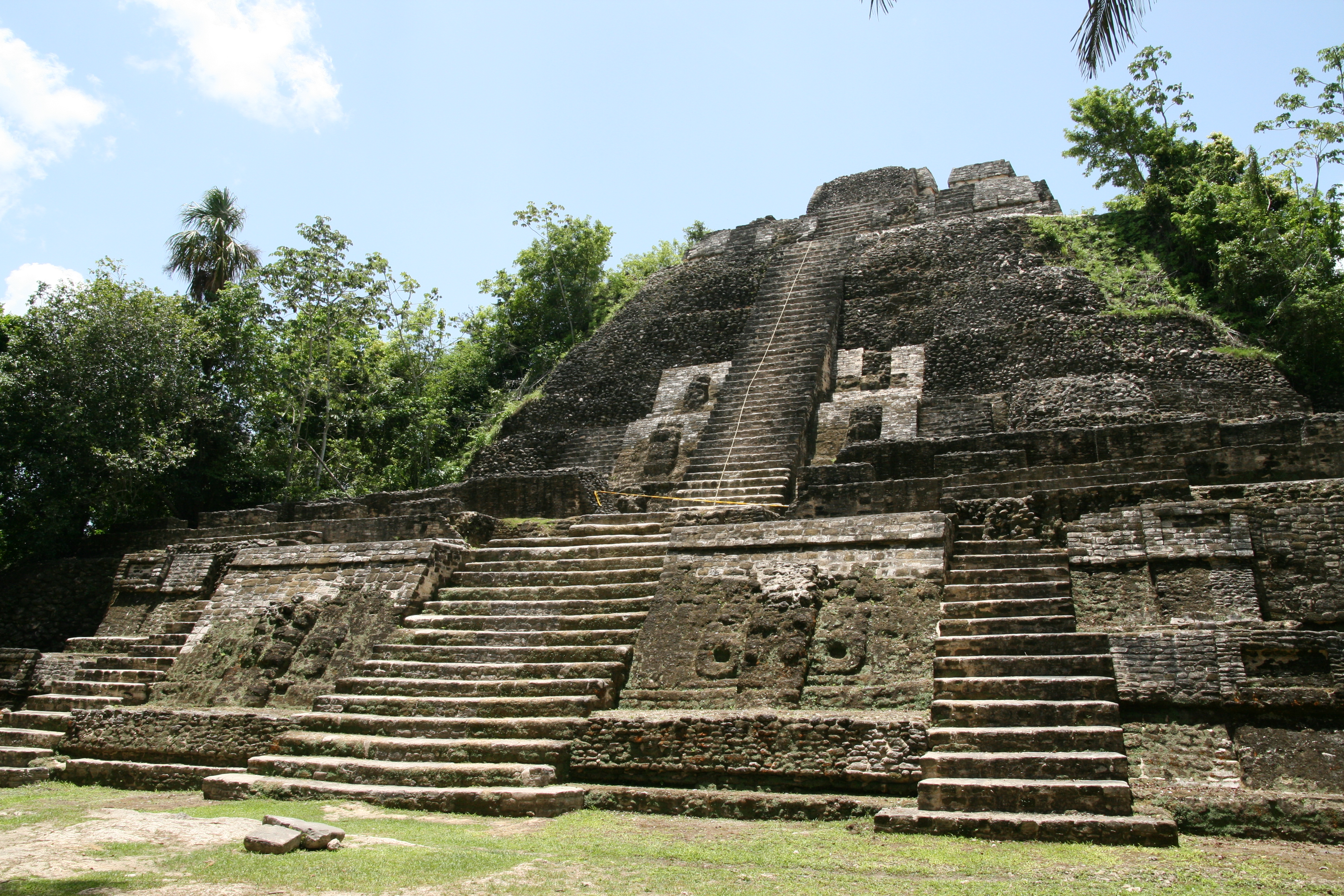 Lamanai High Temple, Orange Walk, Belize.